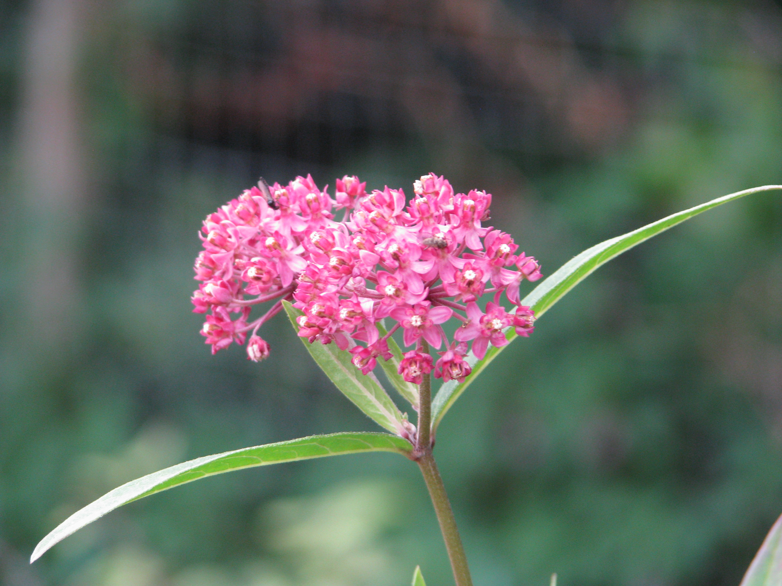 Hmmm... I've raised seed from various US seed merchants of A.rubra and purpurascens and they all look suspiciously like A.incarnata. I don't know how different the three species really are or if the seed merchants are pulling a fast one. I want to grow them all side-by-side in the border and see how different they really are.